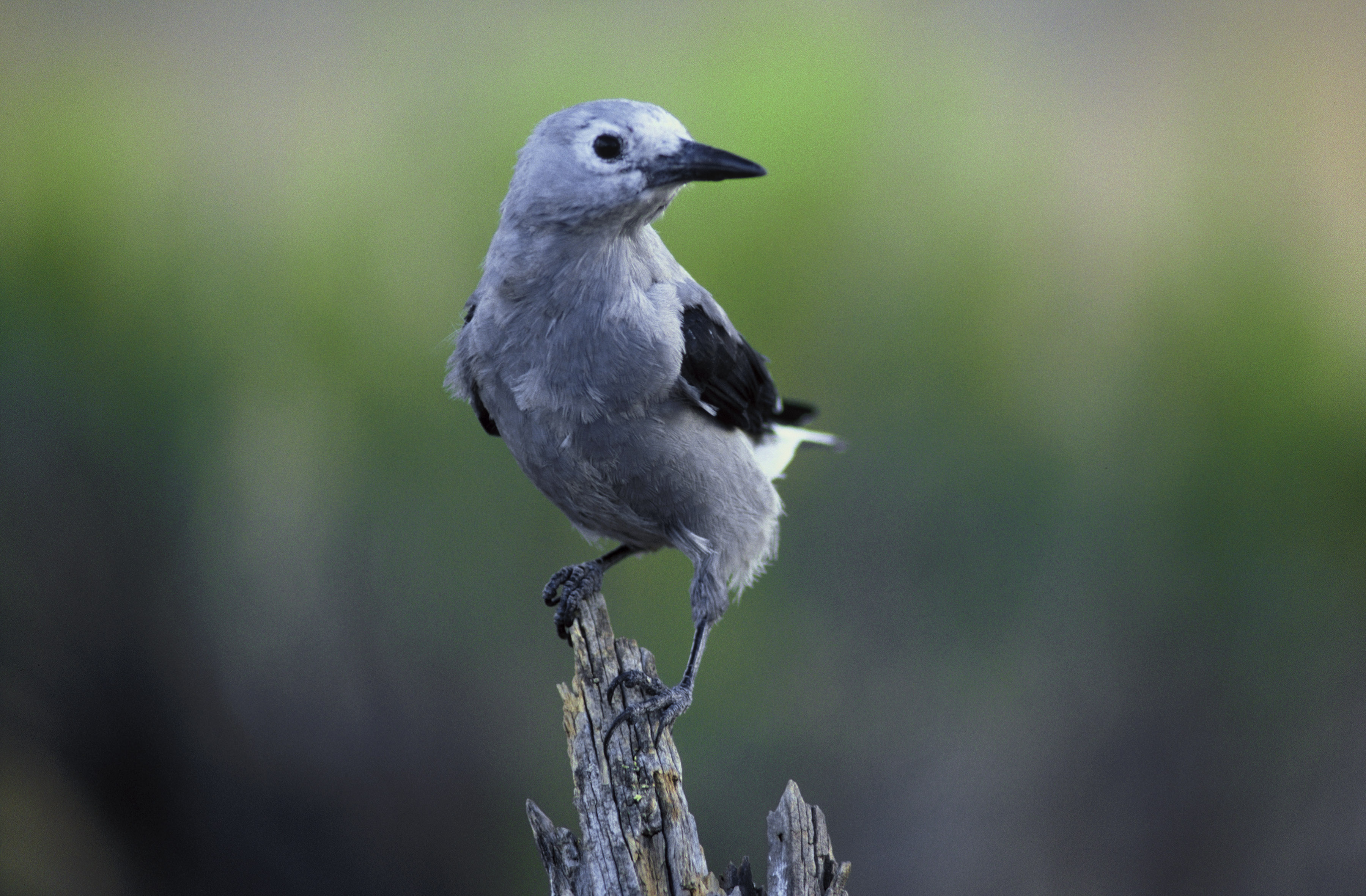 Clark's nutcracker (Nucifraga columbiana)